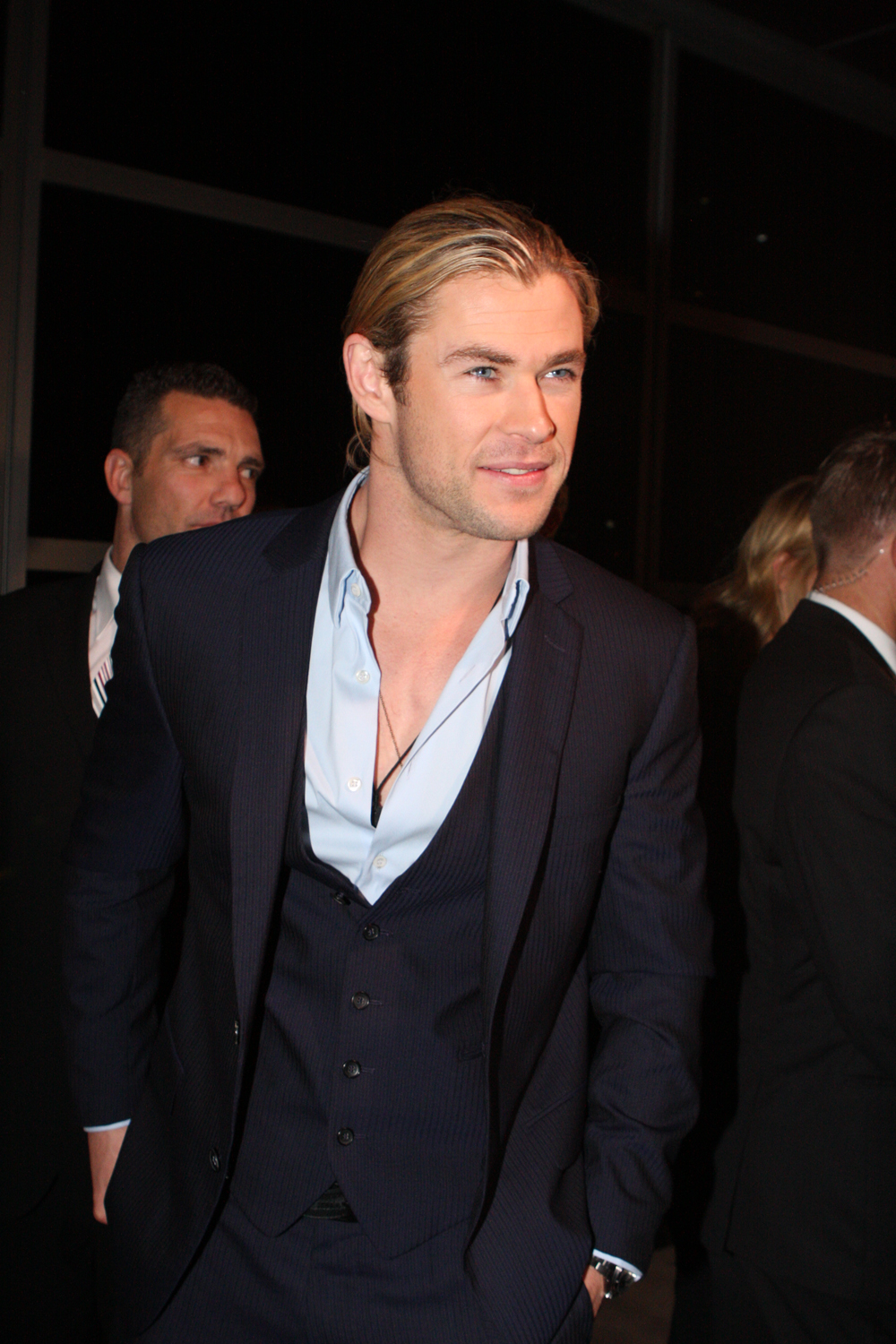 Kristen Stewart and Chris Hemsworth attend 'Snow White and the Huntsman' movie premiere - Bondi Junction, Sydney